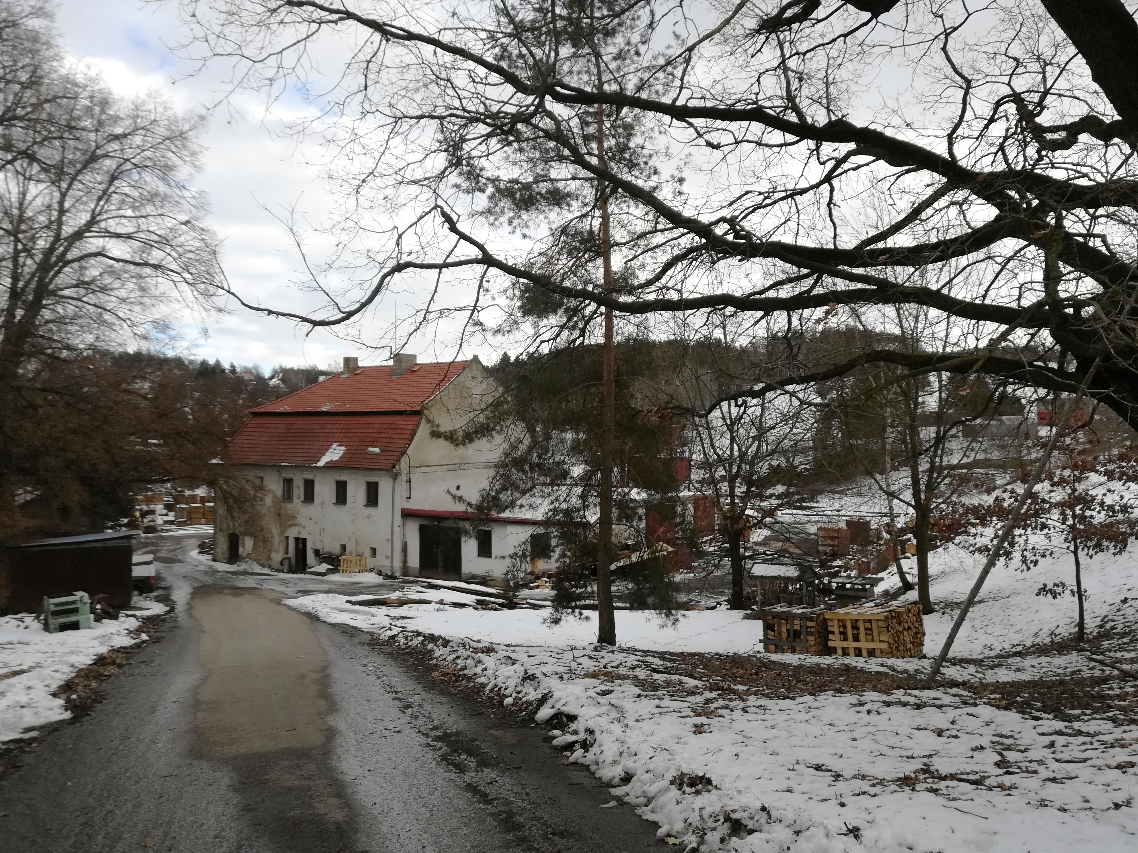 Village of Lhota Veselka, Czech Republic, part of Postupice municipality